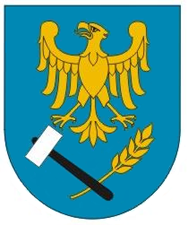 coat of arms of Powiat Gliwicki